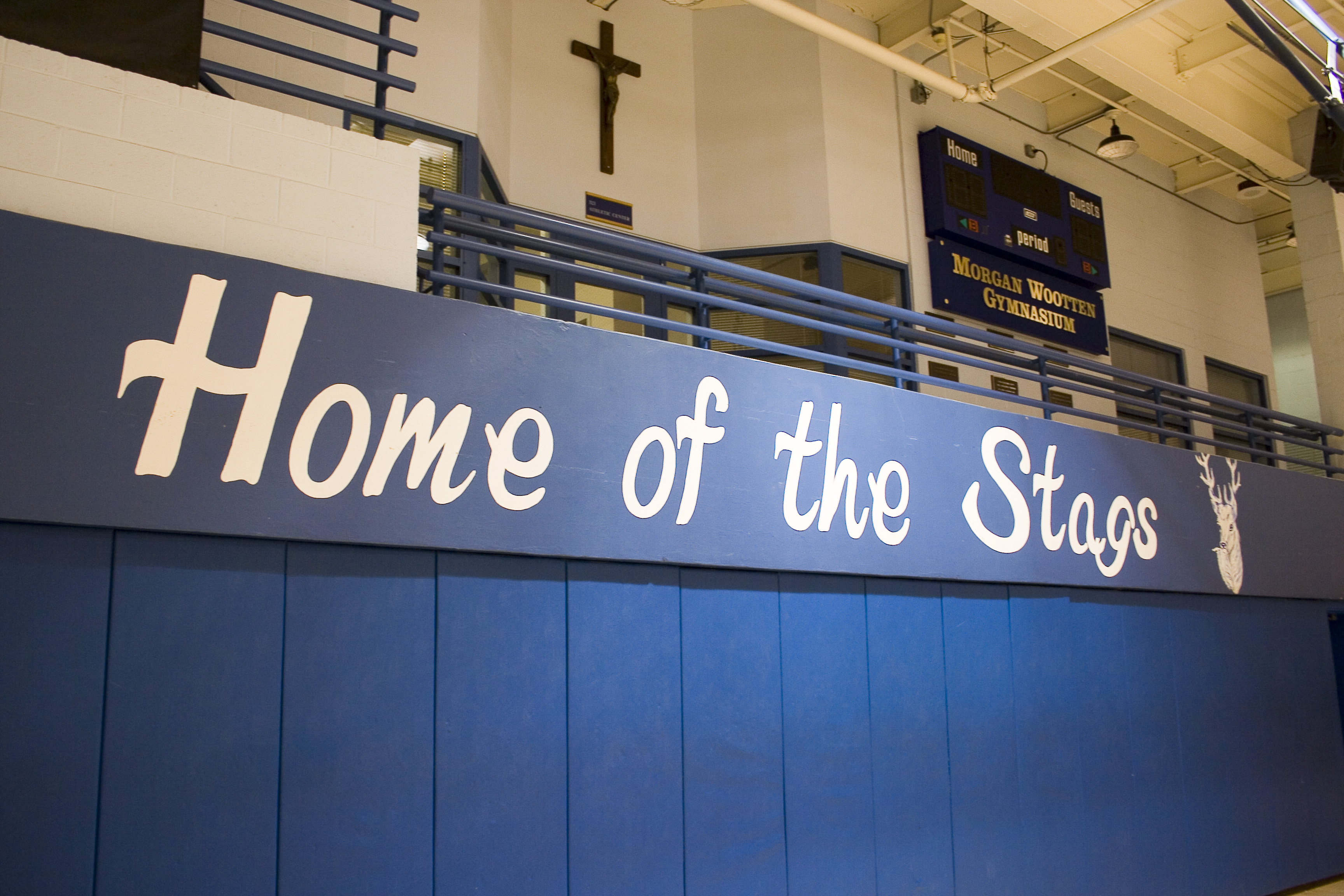 Photo of Morgan Wootten Gymnasium, athletic gymnasium of DeMatha Catholic High School in Hyattsville, Maryland. "Home of the Stags". Photo by Glenn Fitzpatrick (Globalglenn); taken with a Canon 350D, September 24, 2005.